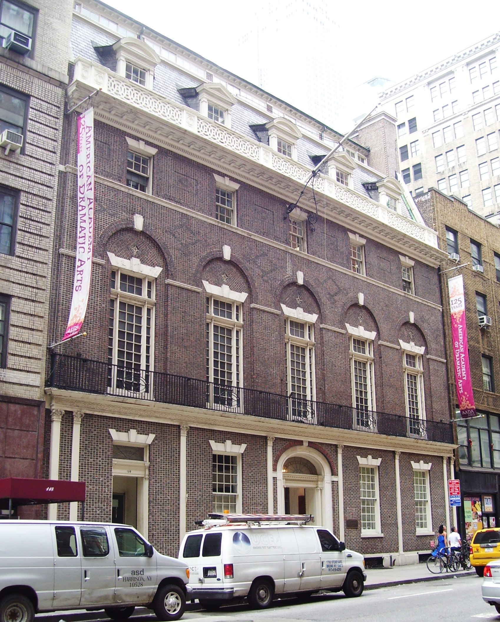 The American Academy of Dramatic Arts Building at 120 Madison Avenue between 30th and 31st Streets was formerly the clubhouse of the Colony Club. It was built between 1904 and 1908 and was designed by Stanford White of McKim, Mead and White in Georgian/Federal Revival style.